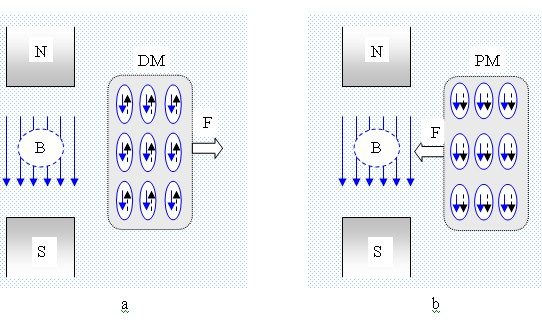 Molecular power 39. Effect of magnetic field on diamagnets and paramagnetics